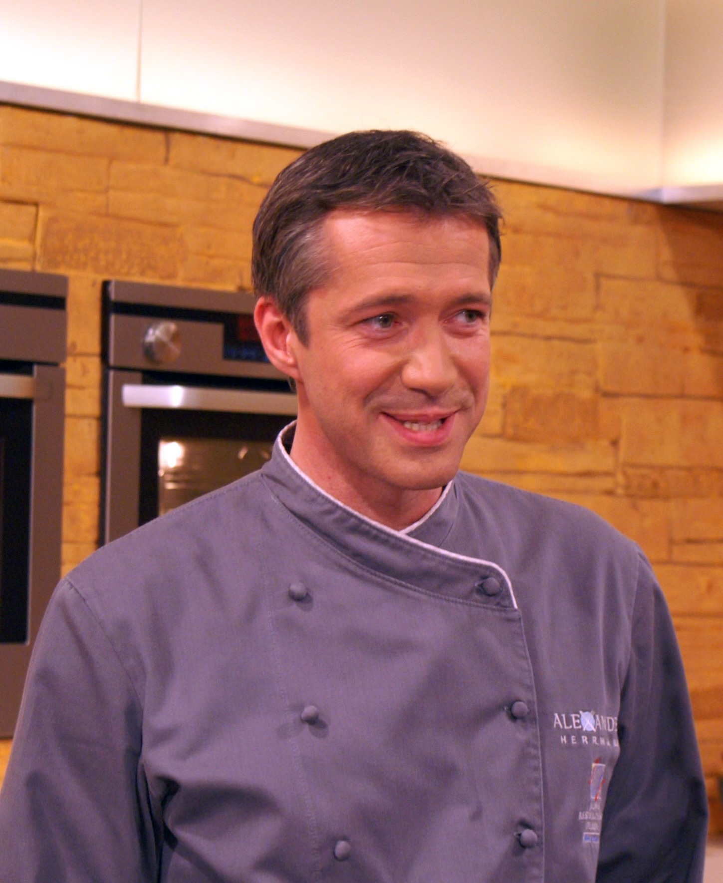 Chef Alexander Herrmann at the German television show Die Küchenschlacht in Hamburg-Rothenbaum.